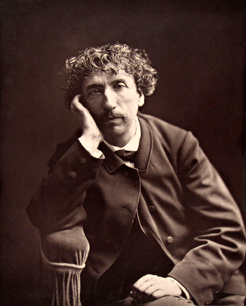 Woodburytype of Garnier (del'opéra), 1876/84